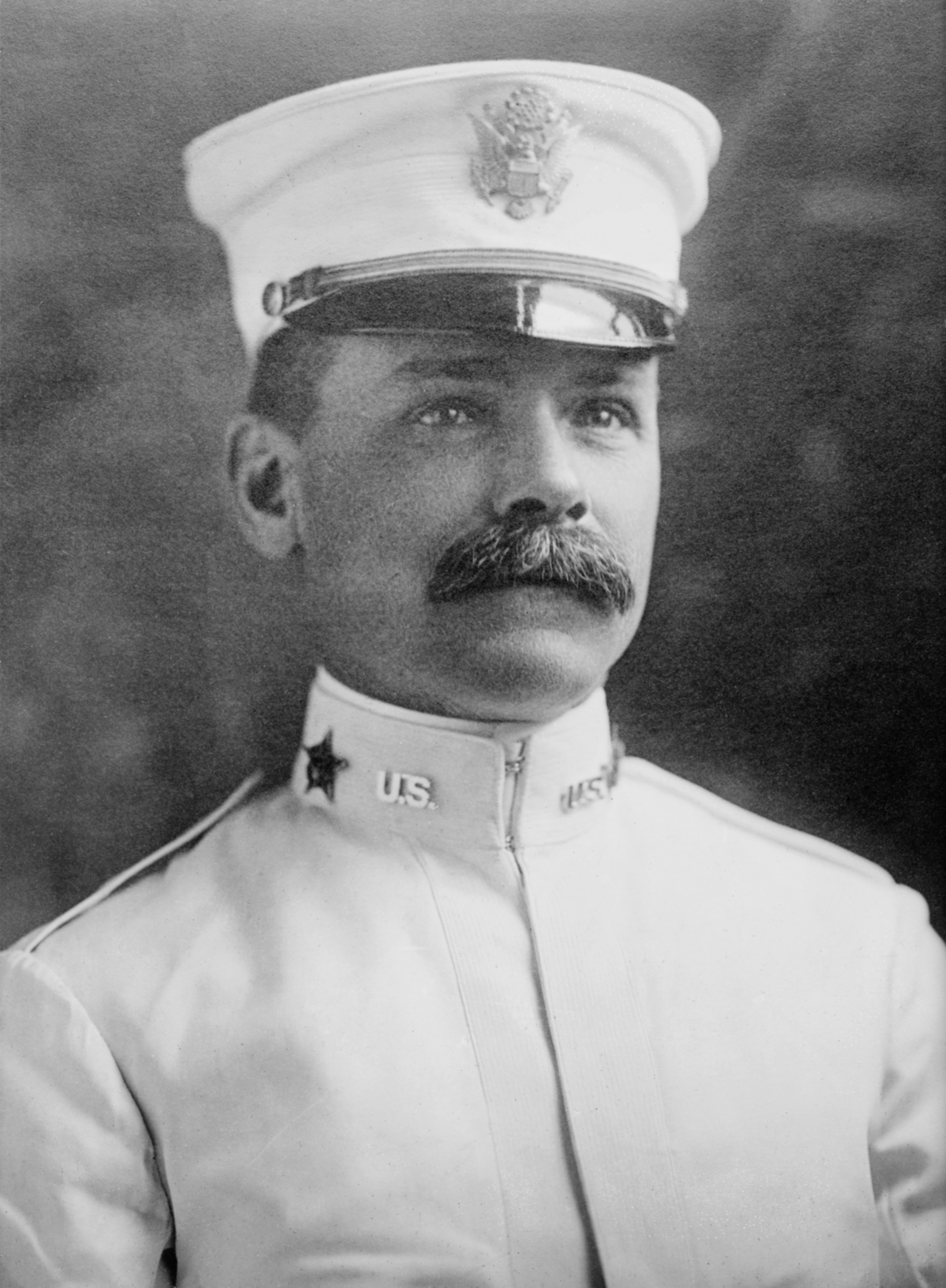 Maj. David du Bose Gaillard (1859-1913), who supervised the excavation of Culebra Cut (also known as Gaillard Cut), the central portion of the Panama Canal.